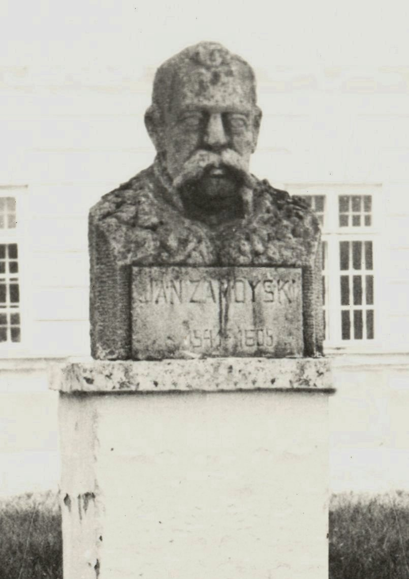 Former bust (sculpture) of Jan Zamoyski near the former Zamoyski Palace in Zamość